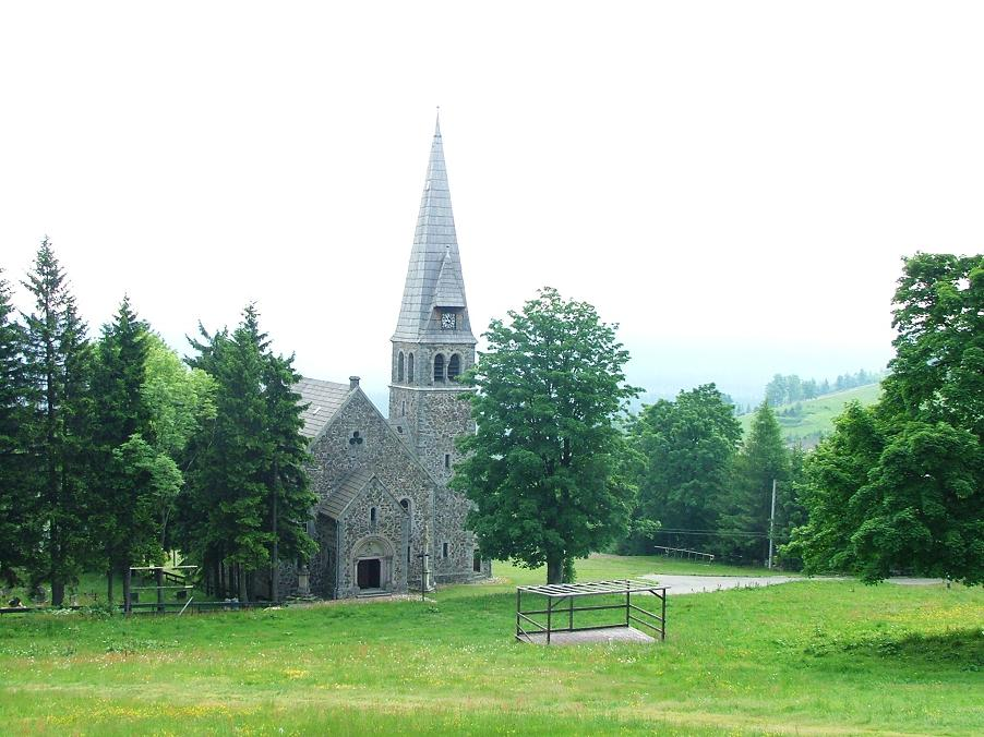 Zieleniec. Church.